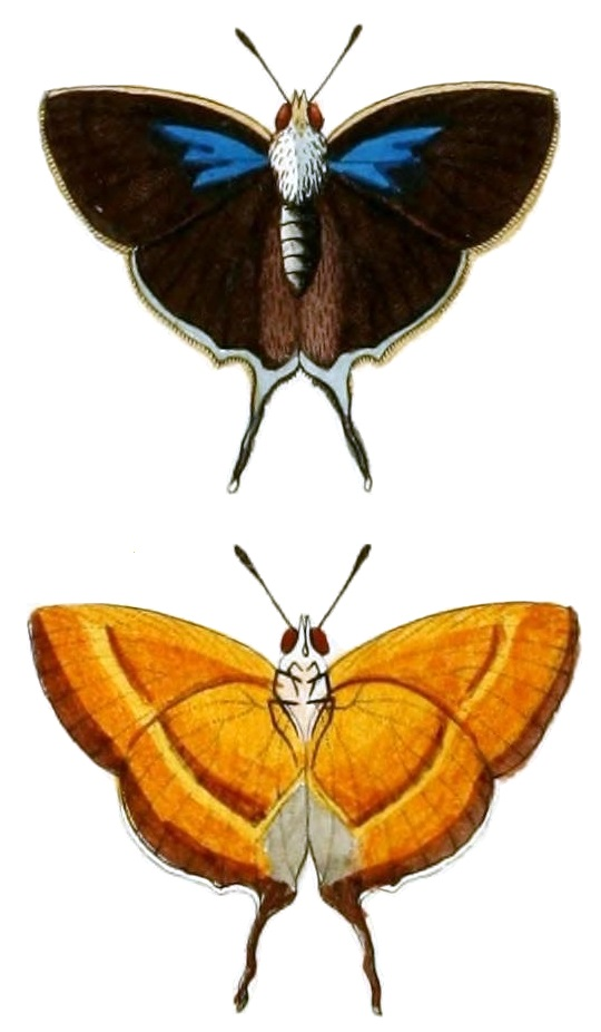 Plate CCCLXXIX Warning: some taxa/names may be misidentified/misapplied or placed in a different genus. Myrina silenus